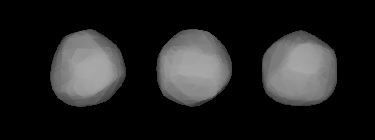 Three-dimensional model of 24 Themis created based on light-curve inversions.